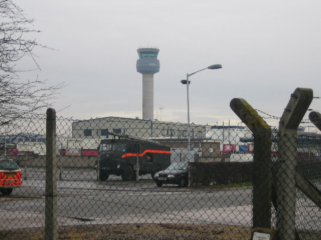 East Midlands Airport and the Control Tower. From the north side of the A453, opposite Bleak House, looking NW.